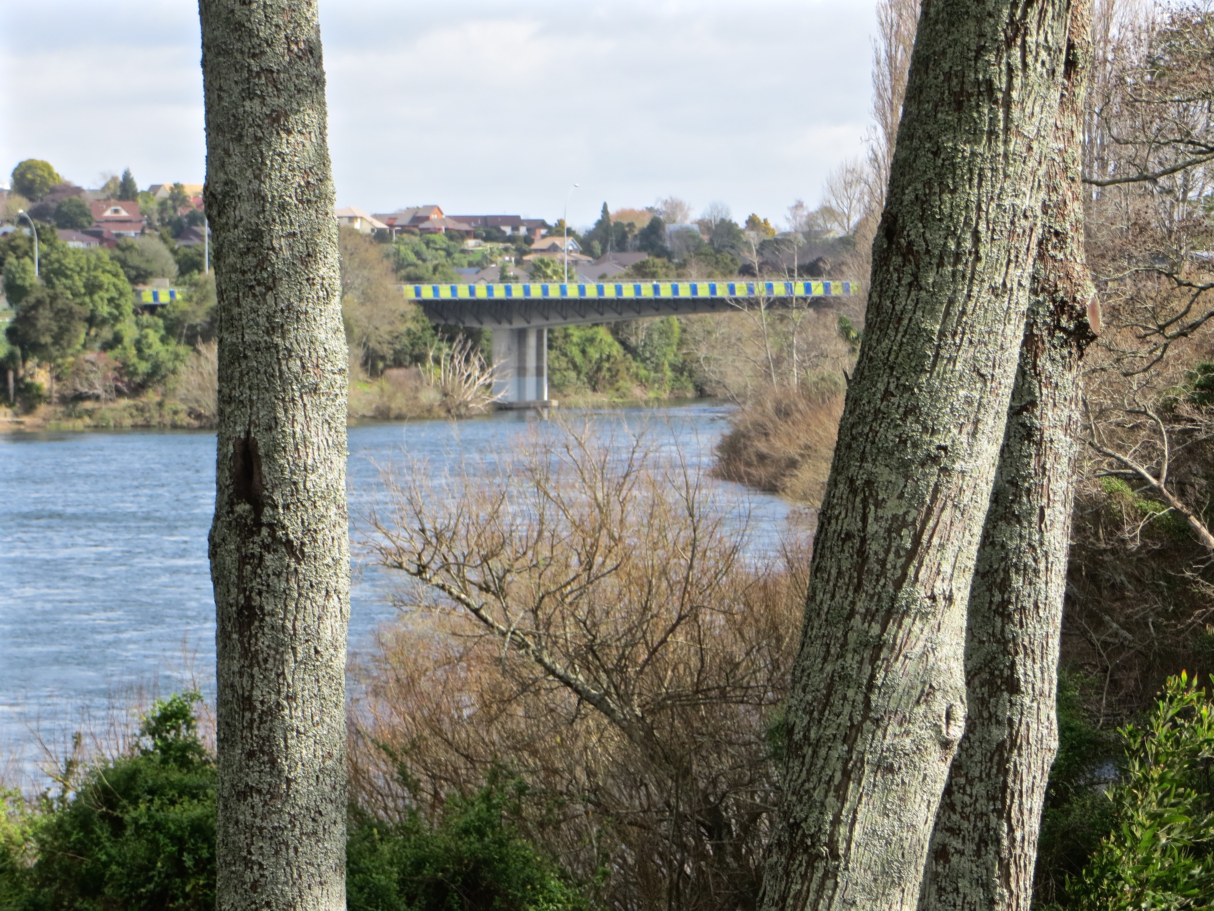 acoustic barrier of blue and yellow plastic panels seen from River Rd